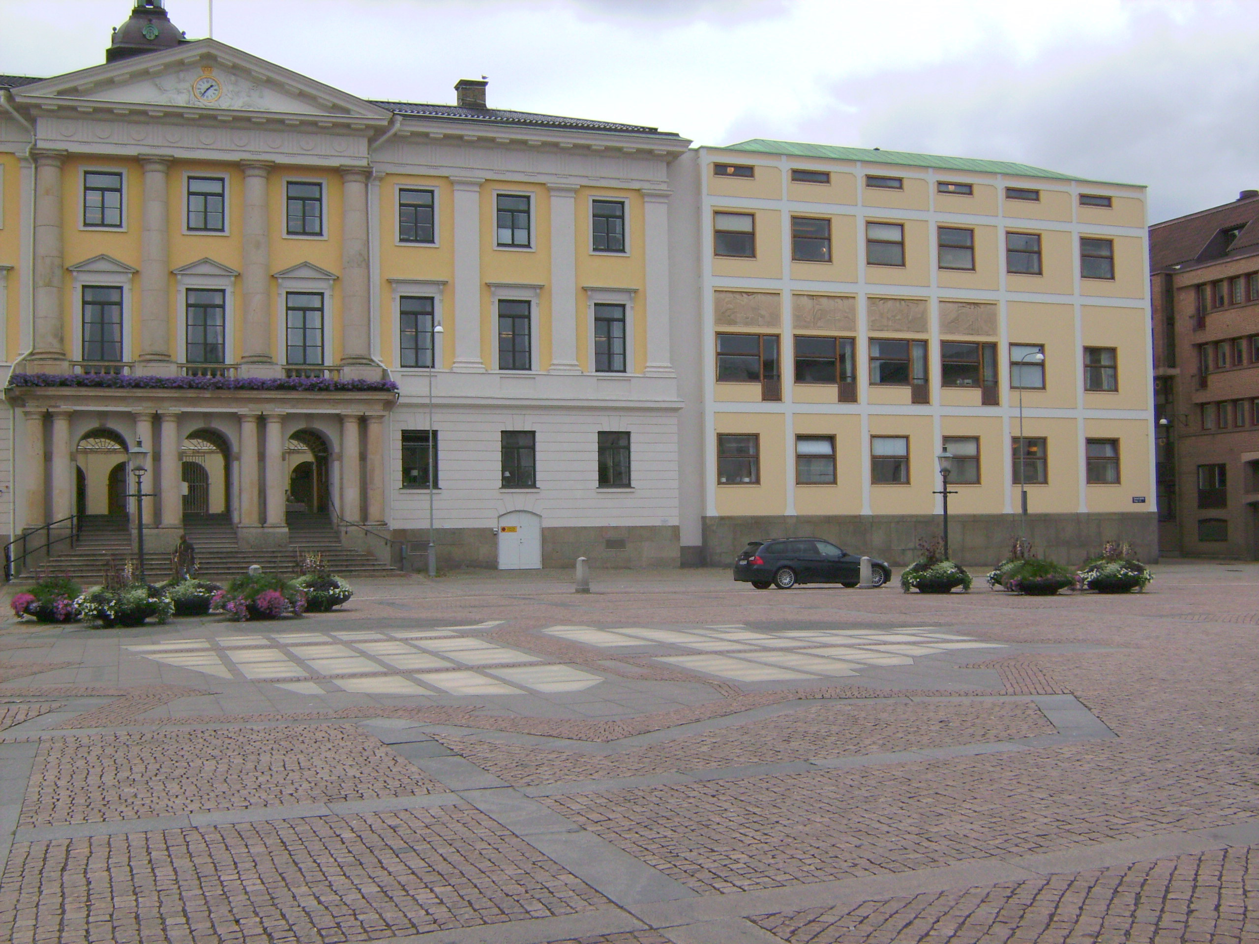 The extension of the Gothenburg City Hall, design by Erik Gunnar Asplund.